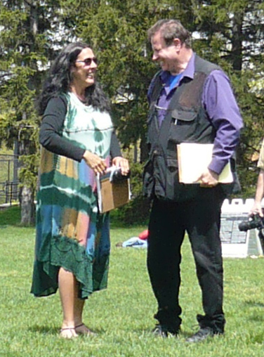 Mary Ann Vecchio (left) and John Filo. The two had just spoken at the 39th annual May 4 Commemoration at Kent State University in Kent, United States. Although they had met earlier, this was their first meeting on the Kent State University campus. The event, which was organized by the May 4 Task Force, was held on the university's Commons.